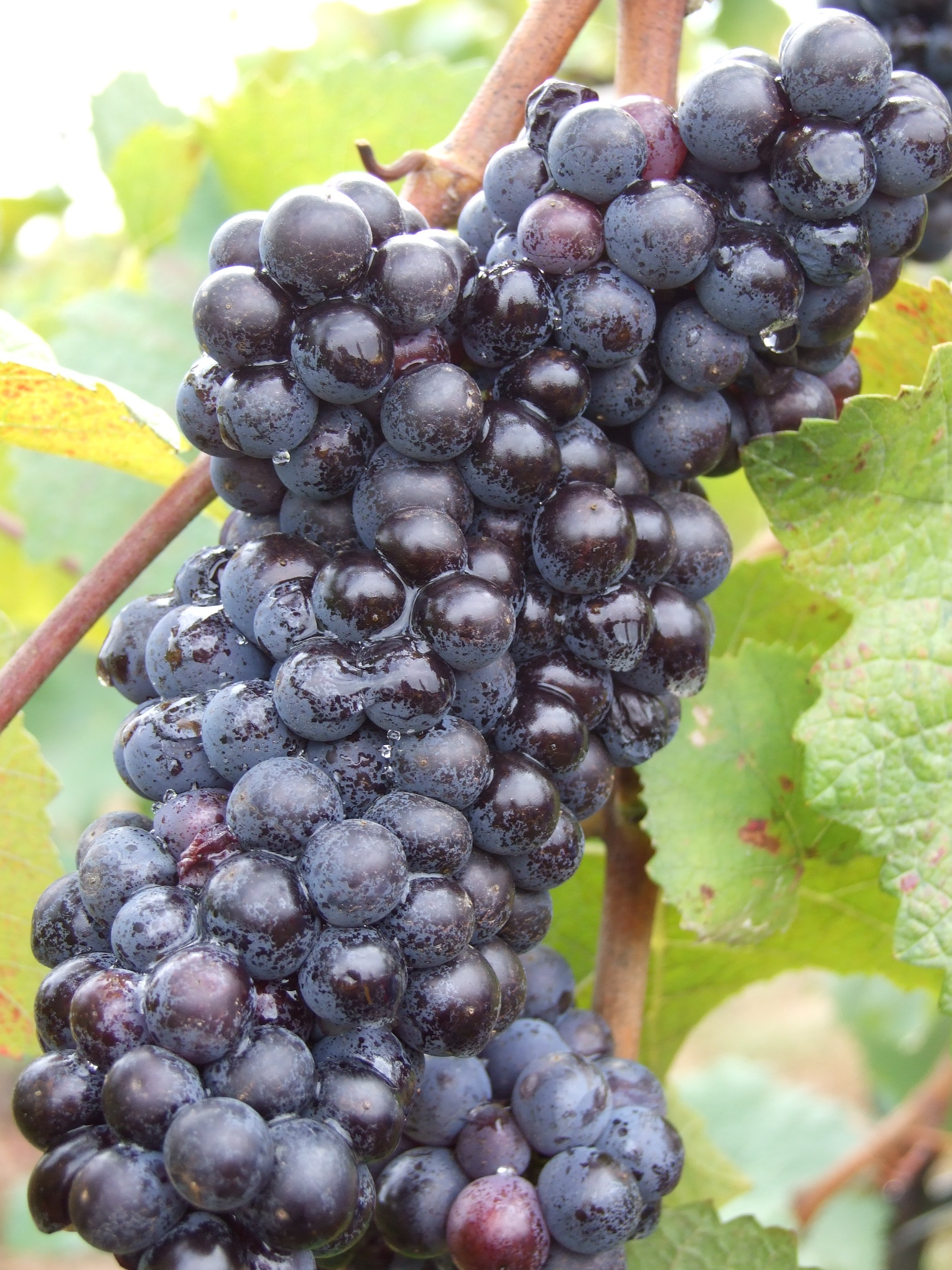 Pinot noir grapes in early October in Oregon that have essentially completed the veraison process and fully changed color. These grapes are nearly completely ripe and will be harvested soon.